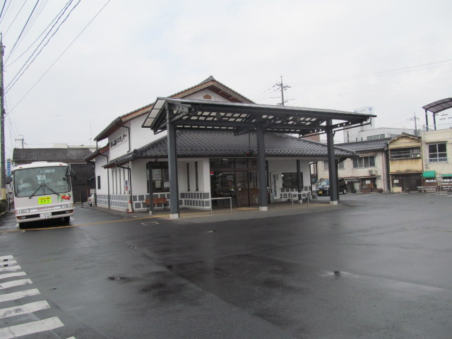 Tsuyama kouiki bus center 1